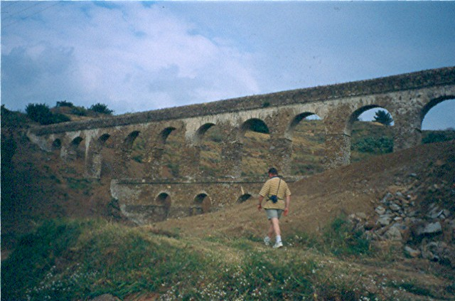 Photograph taken by me, Noel Walley